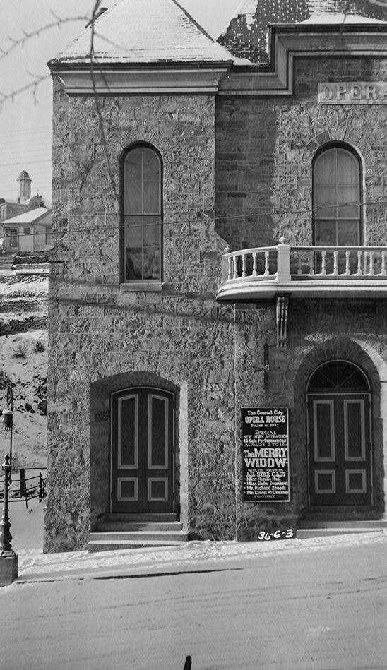 Opera House, Central City, Gilpin County, CO - Detail Front Elevation